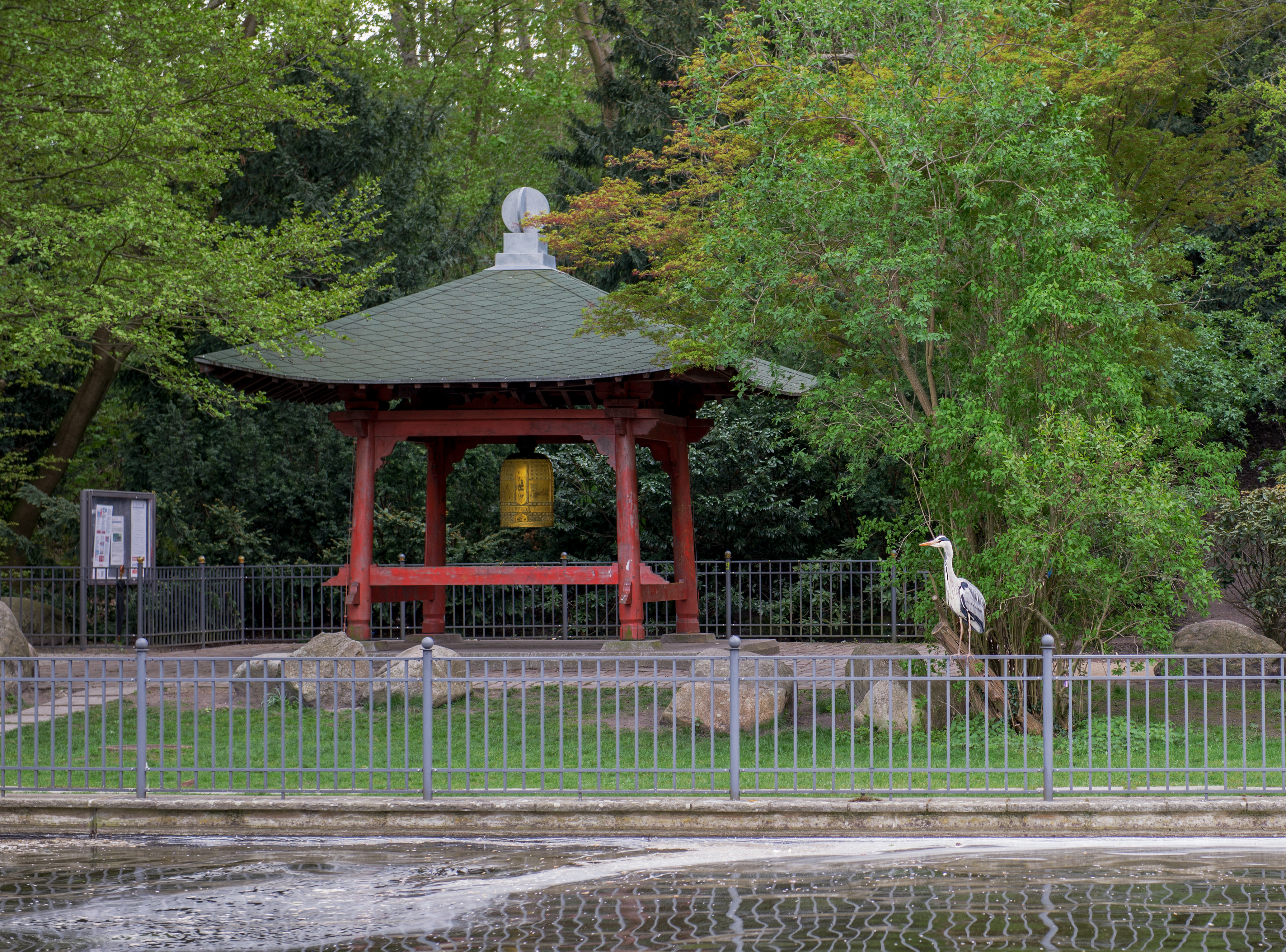 World Peace Bell in Berlin